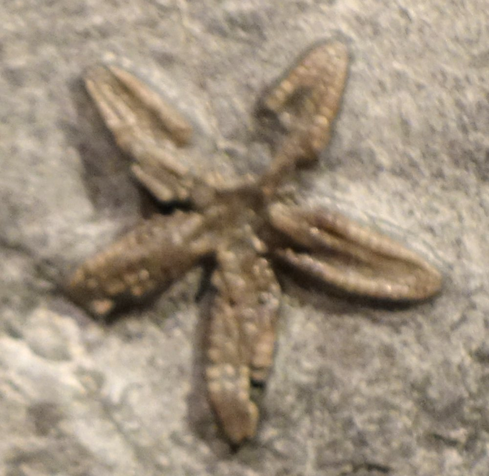 Cropped image of taxon in file name